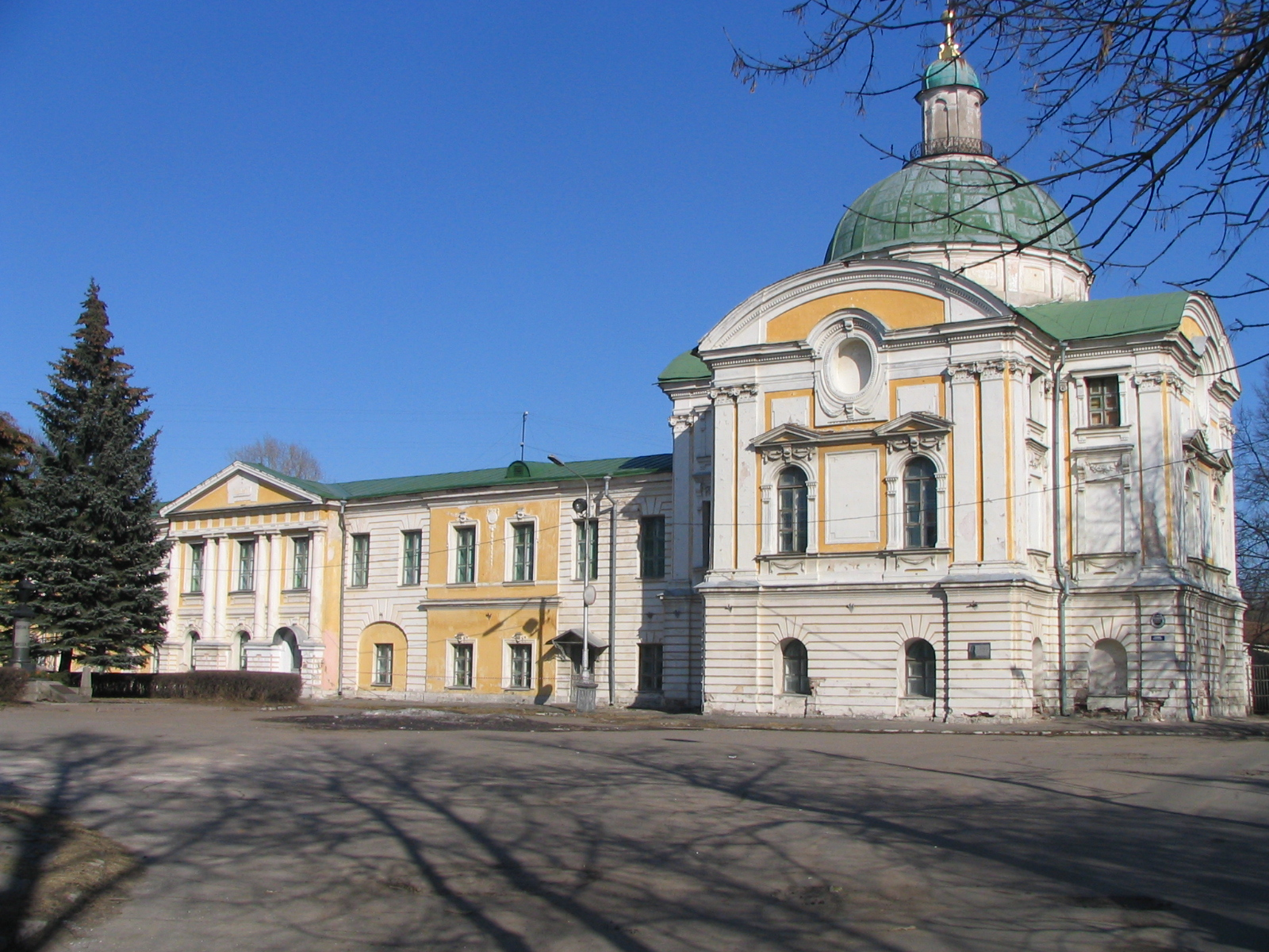 Putevoy (Travel) Palace, Tver, Russia